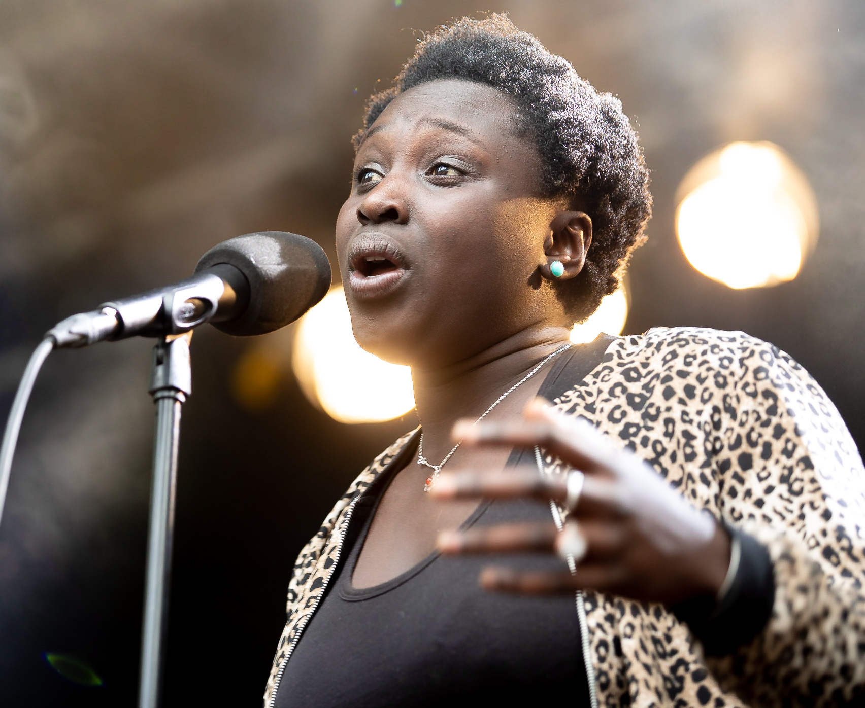 Rohey Taalah with GURLS at the DnB-stage at Grefsenkollen. The concert was part of Over Oslo and took place on 23. June 2018 in Oslo. Lineup: Ellen Andrea Wang (double bass) Hanna Paulsberg (saxophone) Rohey Taalah (vocal) Elias Tafjord (drums)